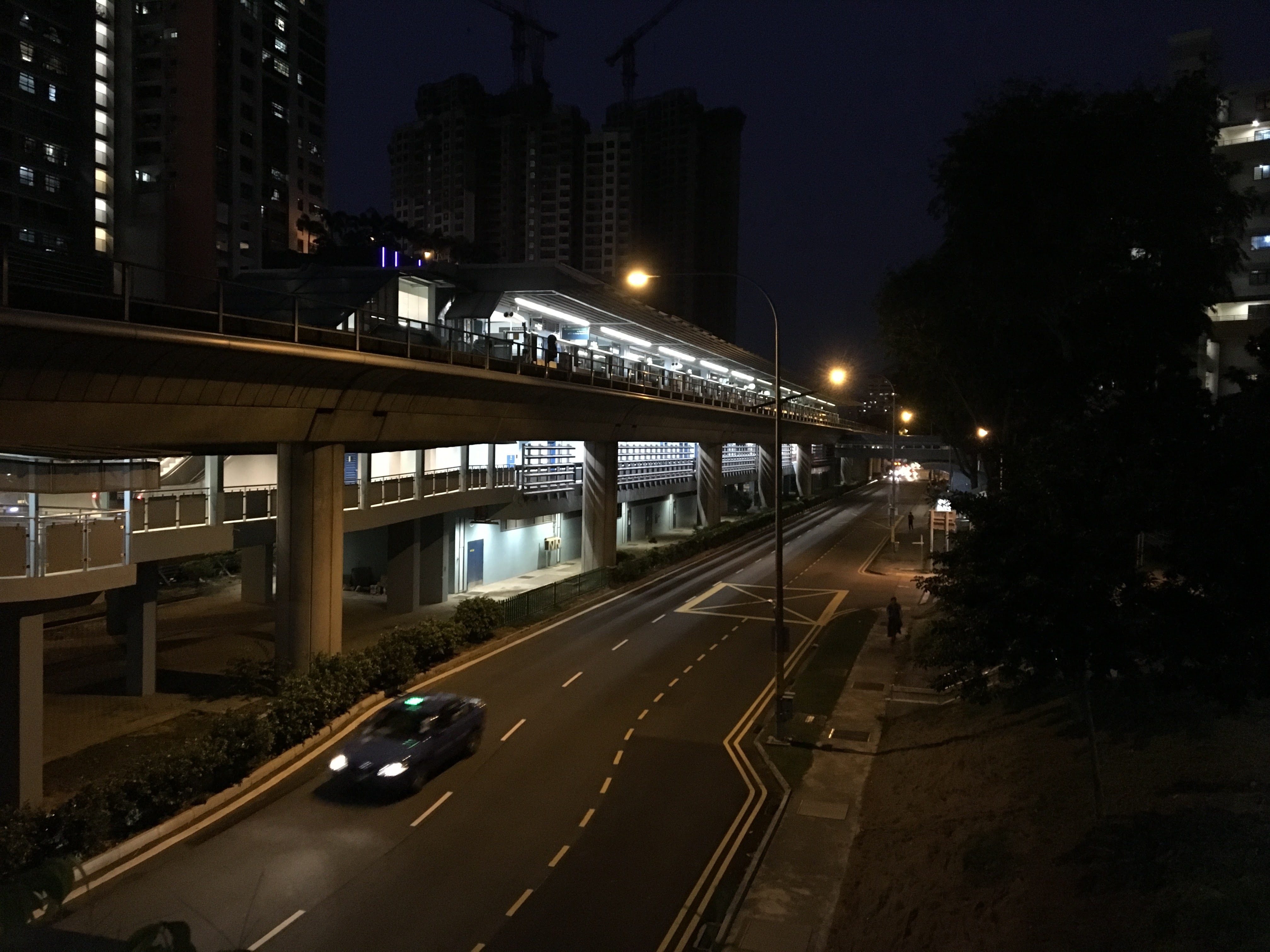 Clementi MRT Station at night.